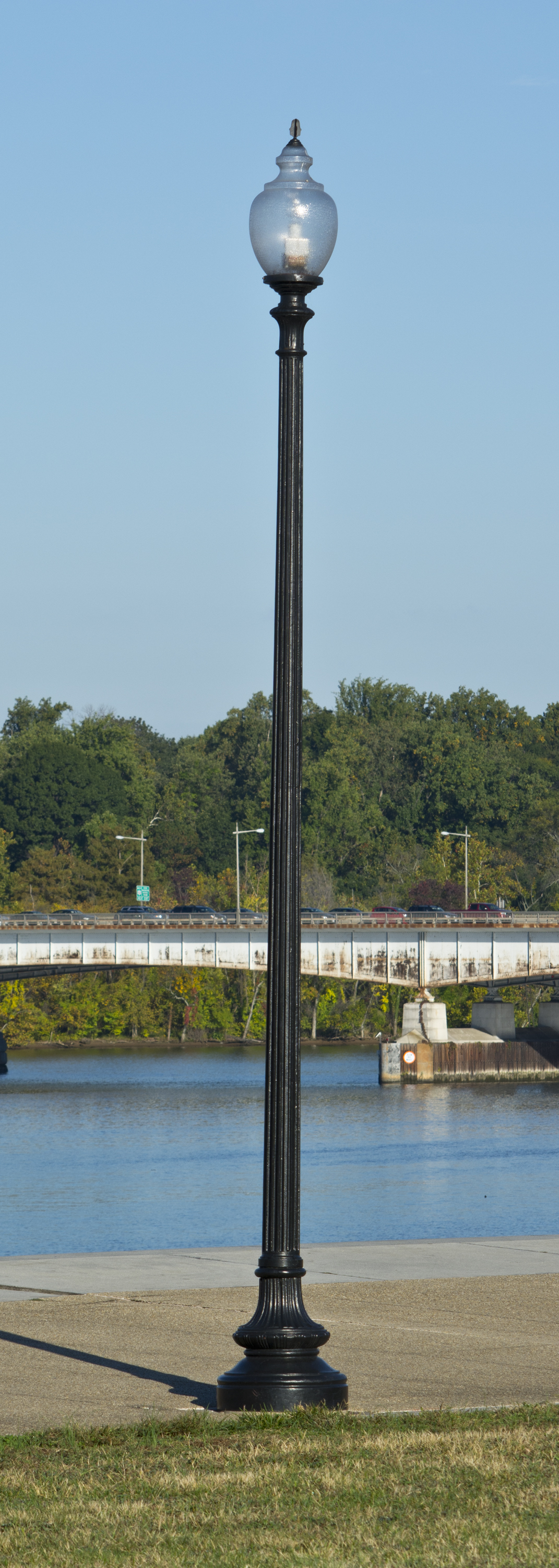 An example of the Number 13/Number 14/Number 16/Number 18 street light adopted by the city of Washington, D.C., in the United States.